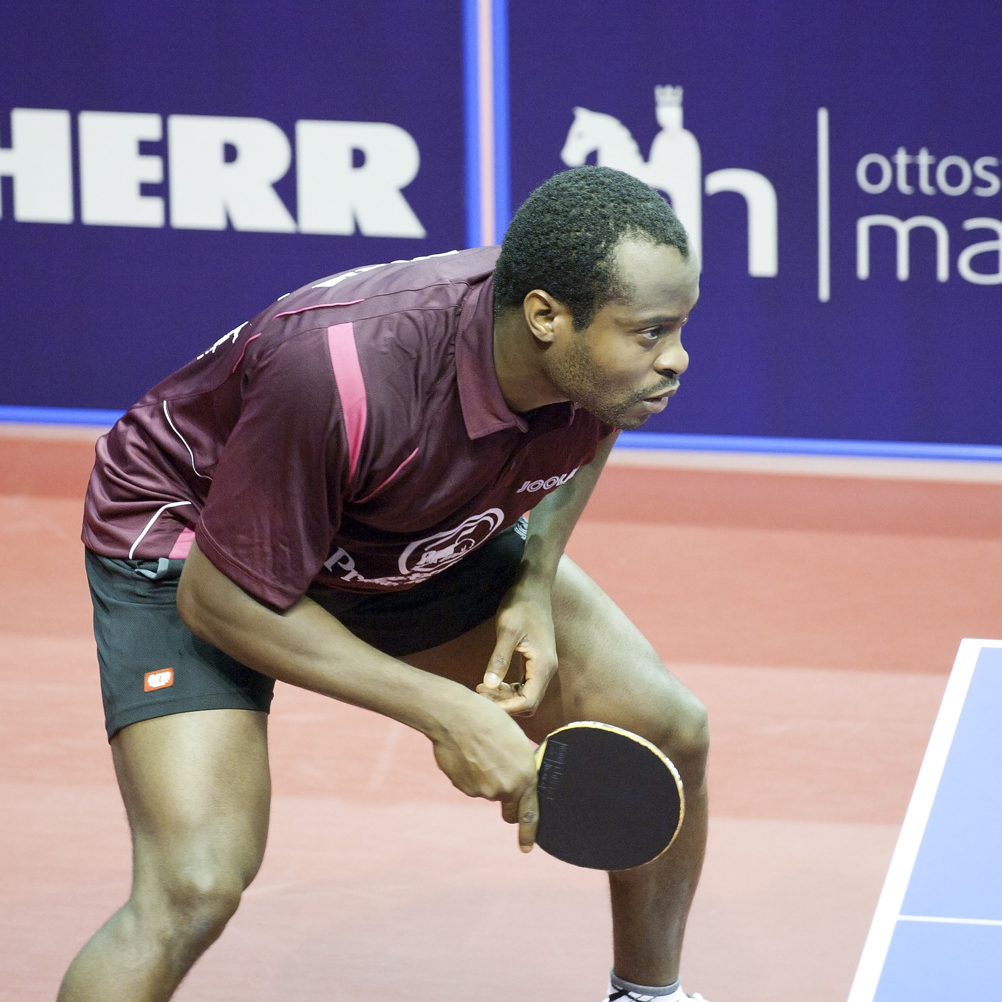 ITTF World Tour 2017 German Open, Magdeburg, Germany, 7 Nov 2017 - 12 Nov 2017, Quadri Aruna